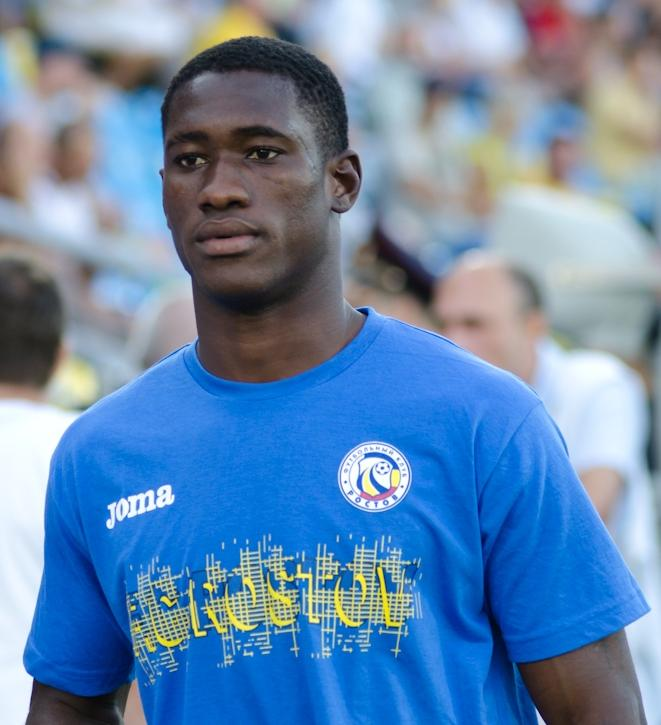 Bartolomeu Jacinto Quissanga aka Bastos with for FC Rostov.